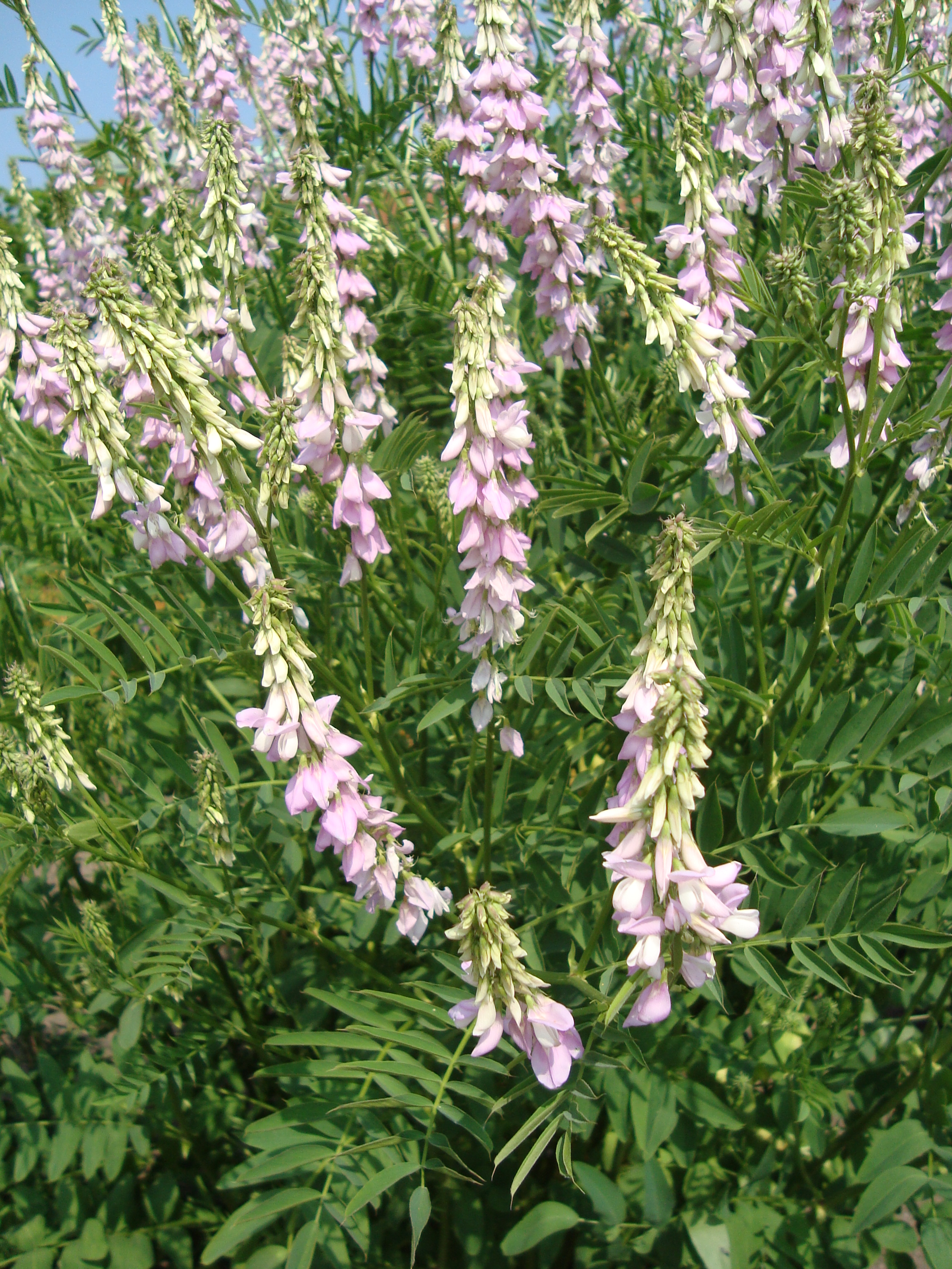 Galega officinalis